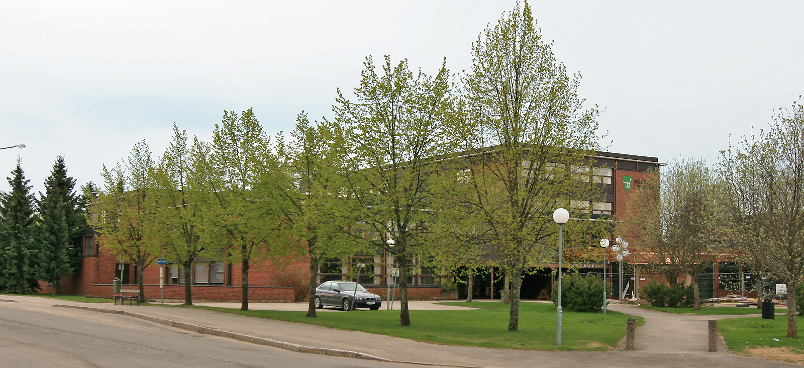 Stange town hall, Stange, Norway